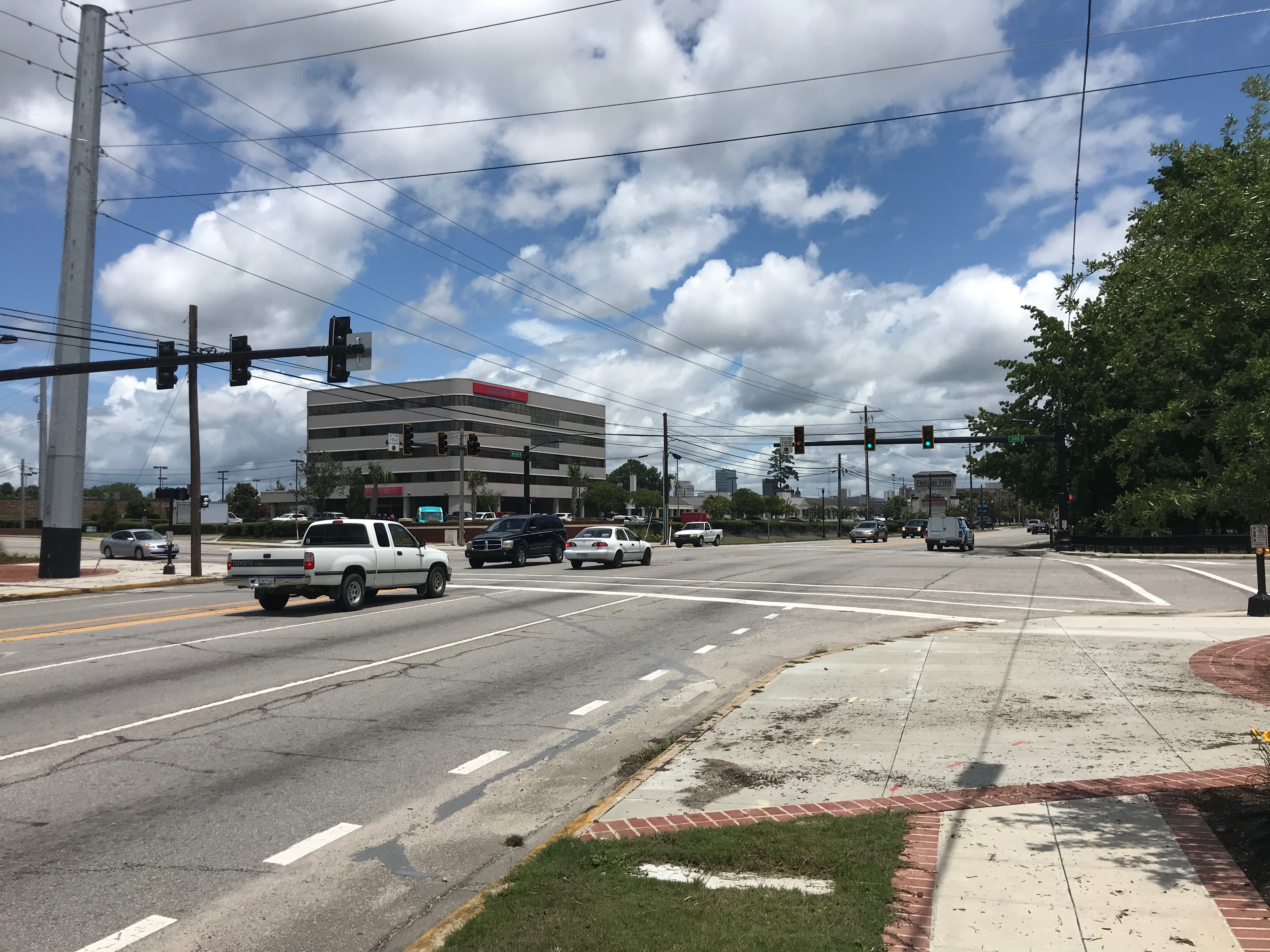 Cayce, SC Knox Abbot Road